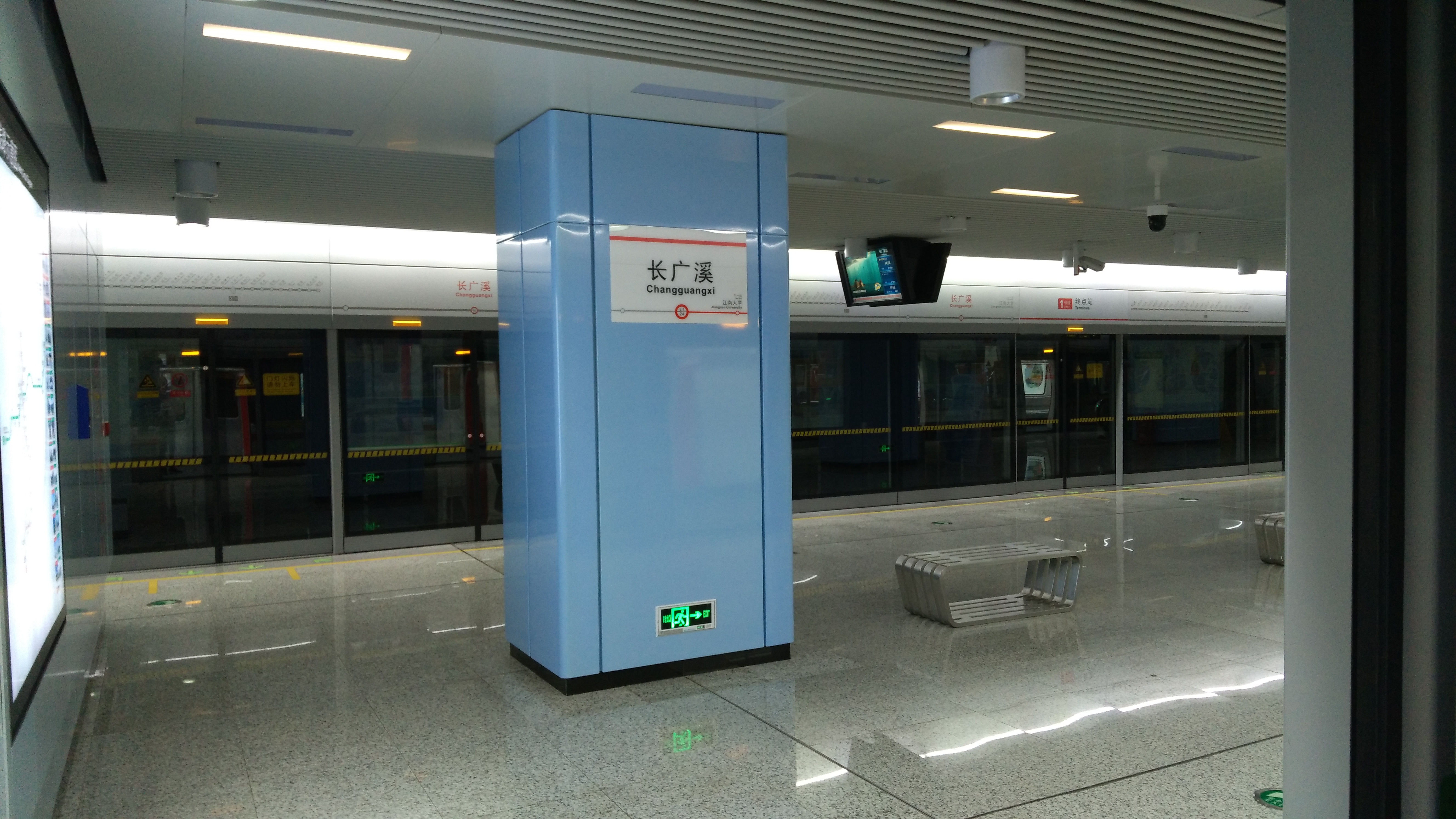 Changguangxi Station, Wuxi Metro line 1